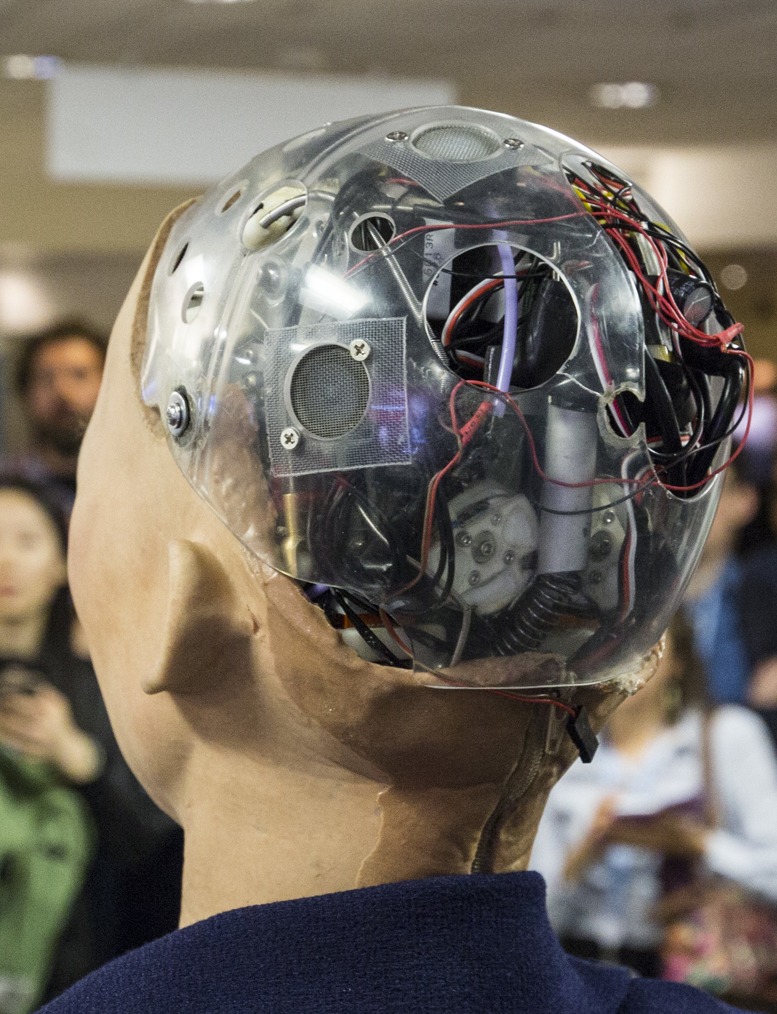 Sophia, First Robot Citizen at the AI for Good Global Summit 2018